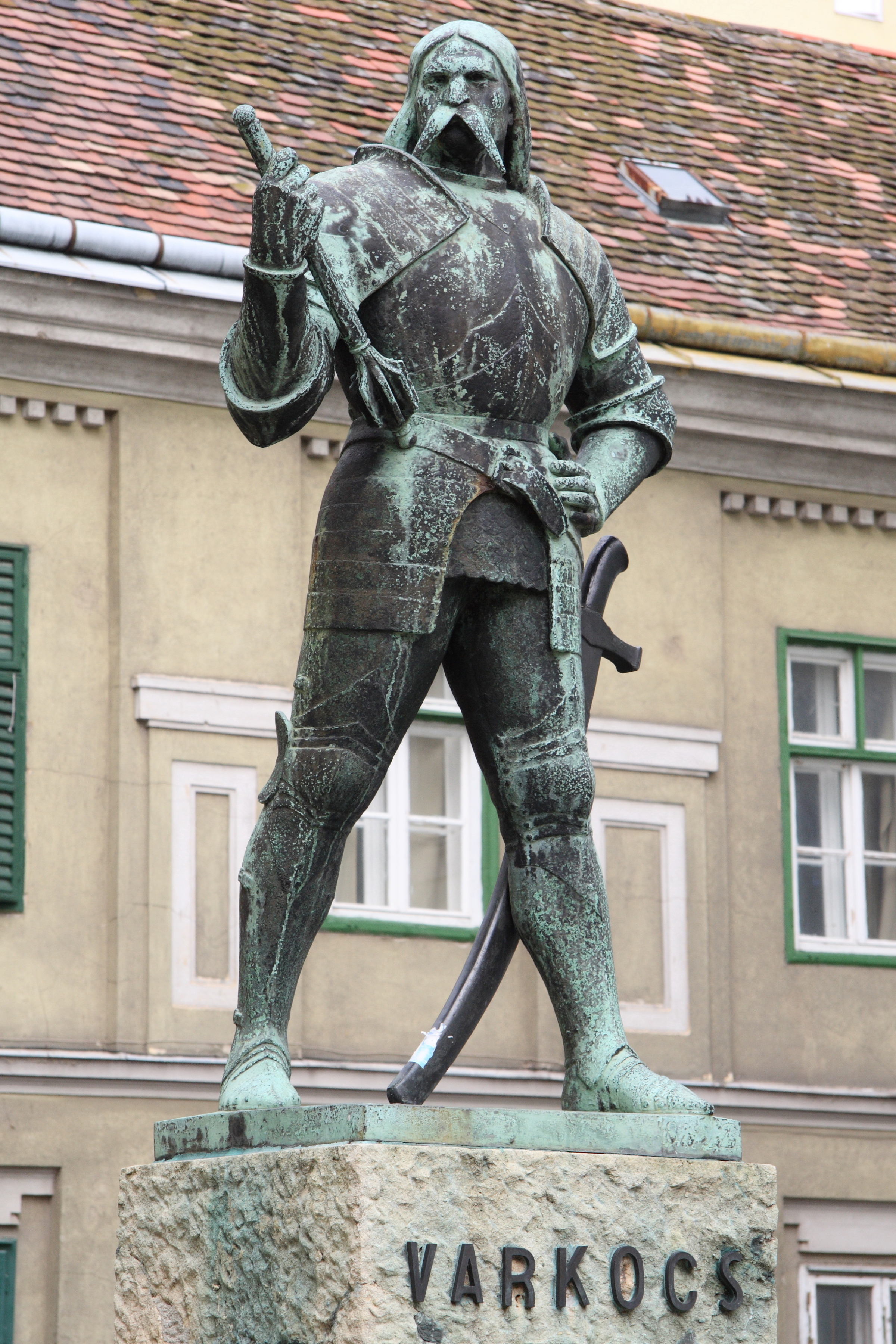 Statue of György Varkocs by Dezső Erdey, erected in 1938 to commemorate the death of Commander György Varkocs who fell in the battle for Székesfehérvár in 1543